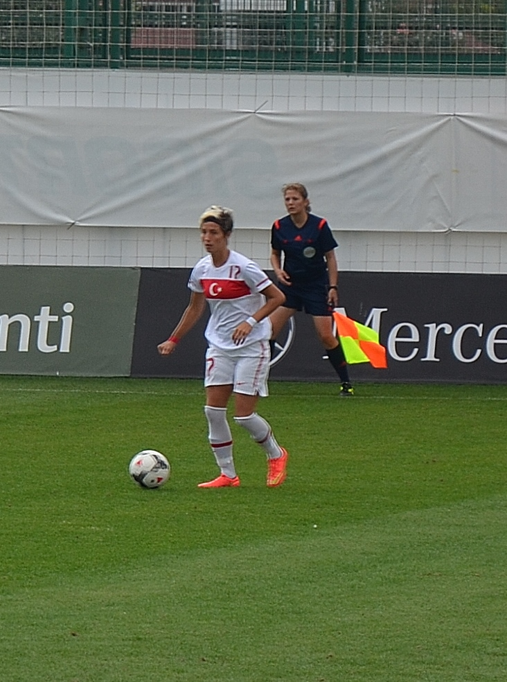 Esra Erol for Turkey women's national football team in the home match against Belarus